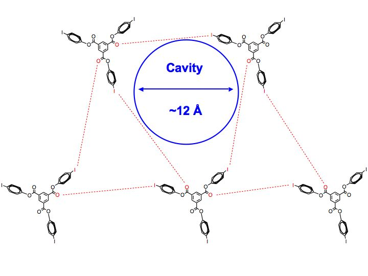 yea